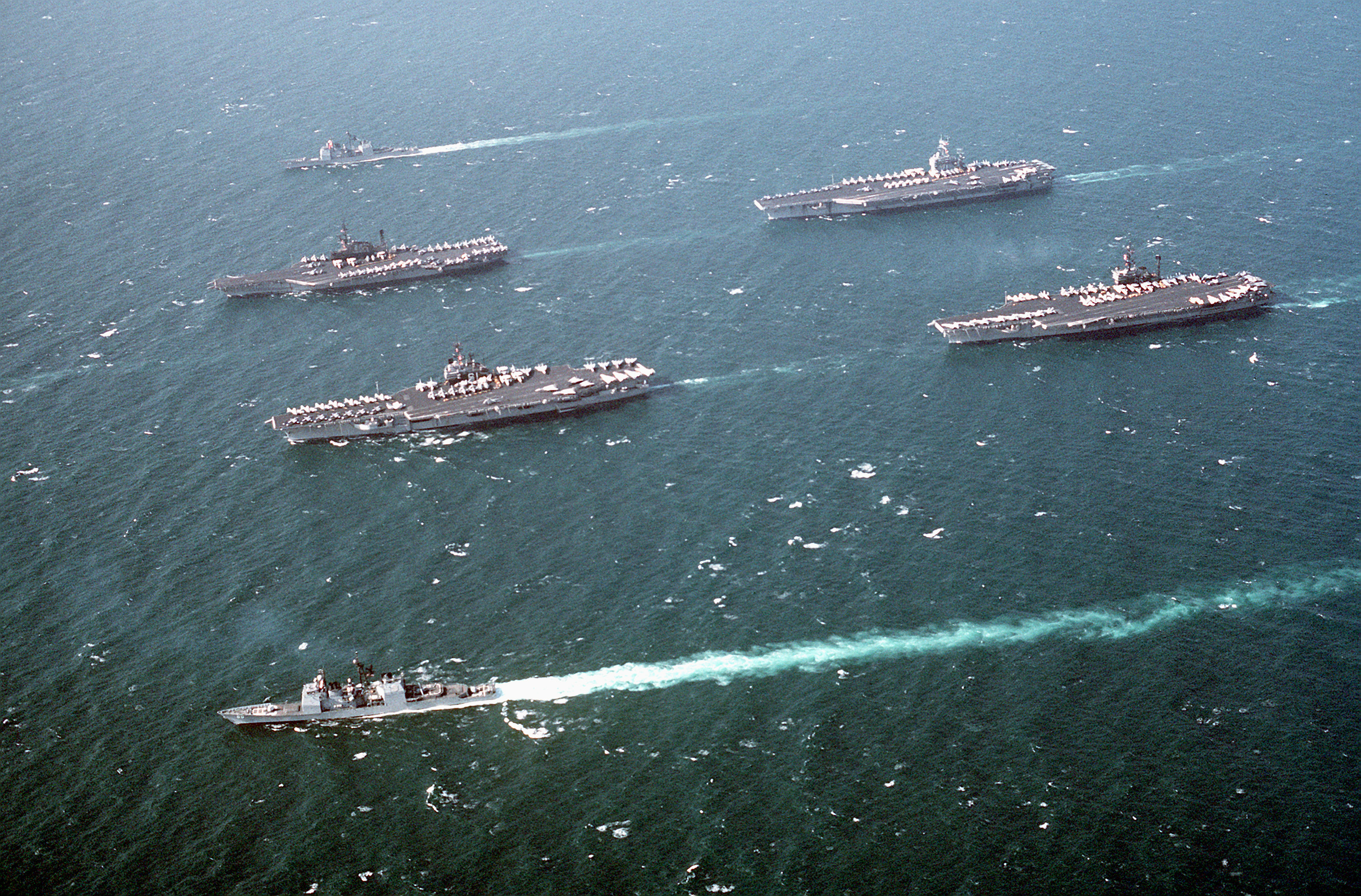 Six ships of Battle Force Zulu (Task Force 154) steam in formation after the cease-fire that ended Operation Desert Storm. At left, from top, are the guided missile cruiser USS Leyte Gulf (CG-55), the aircraft carriers USS Midway (CV-41) and USS Ranger (CV-61) and the guided missile cruiser USS Normandy (CG-60). At right are the nuclear-powered aircraft carrier USS Theodore Roosevelt (CVN-71), top, and the aircraft carrier USS America (CV-66) .